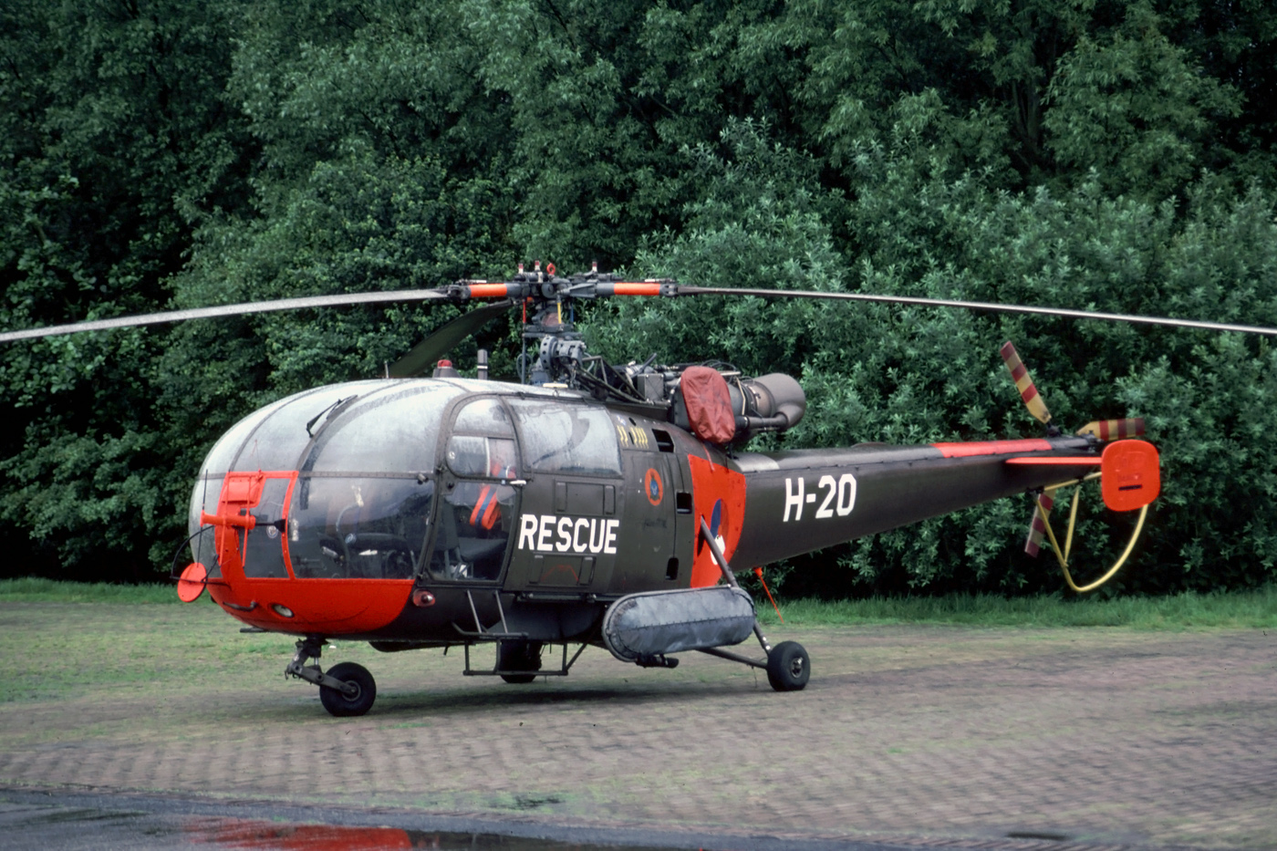 SAR Alouette at its home base Leeuwarden. The last flight of the Dutch Alouettes will take place on 15 December 2015: more than 53 years after the type entered service in The Netherlands.